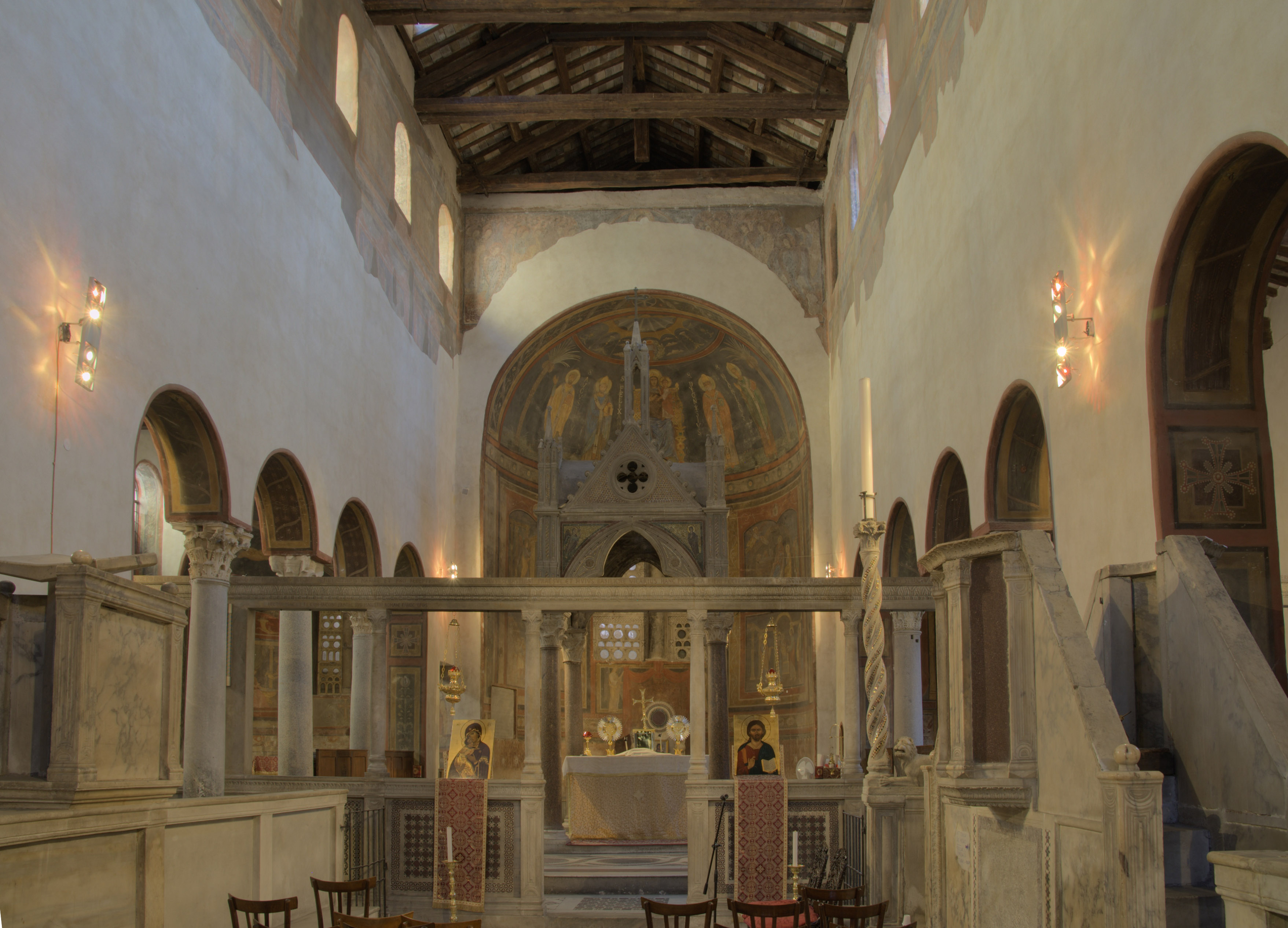 Interior of Santa Maria in Cosmedin, Rome, Italy